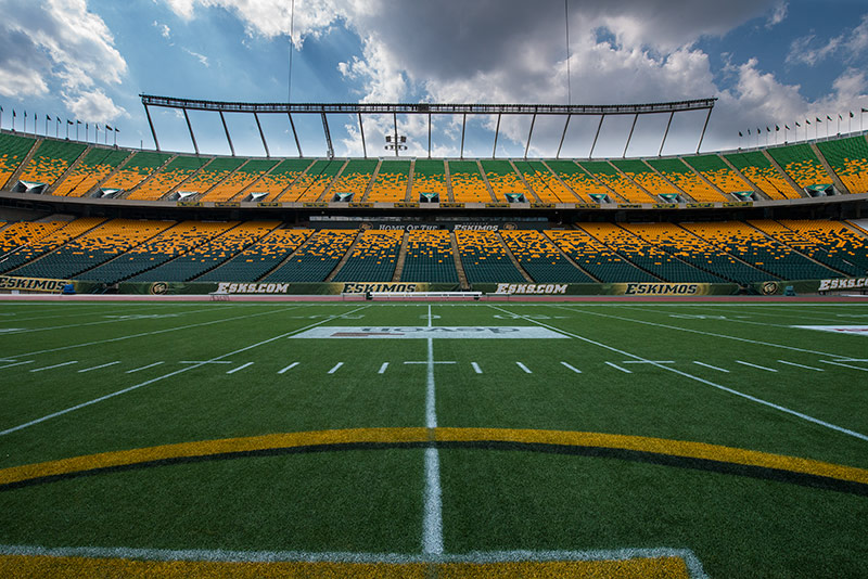 Commonwealth Stadium 2013